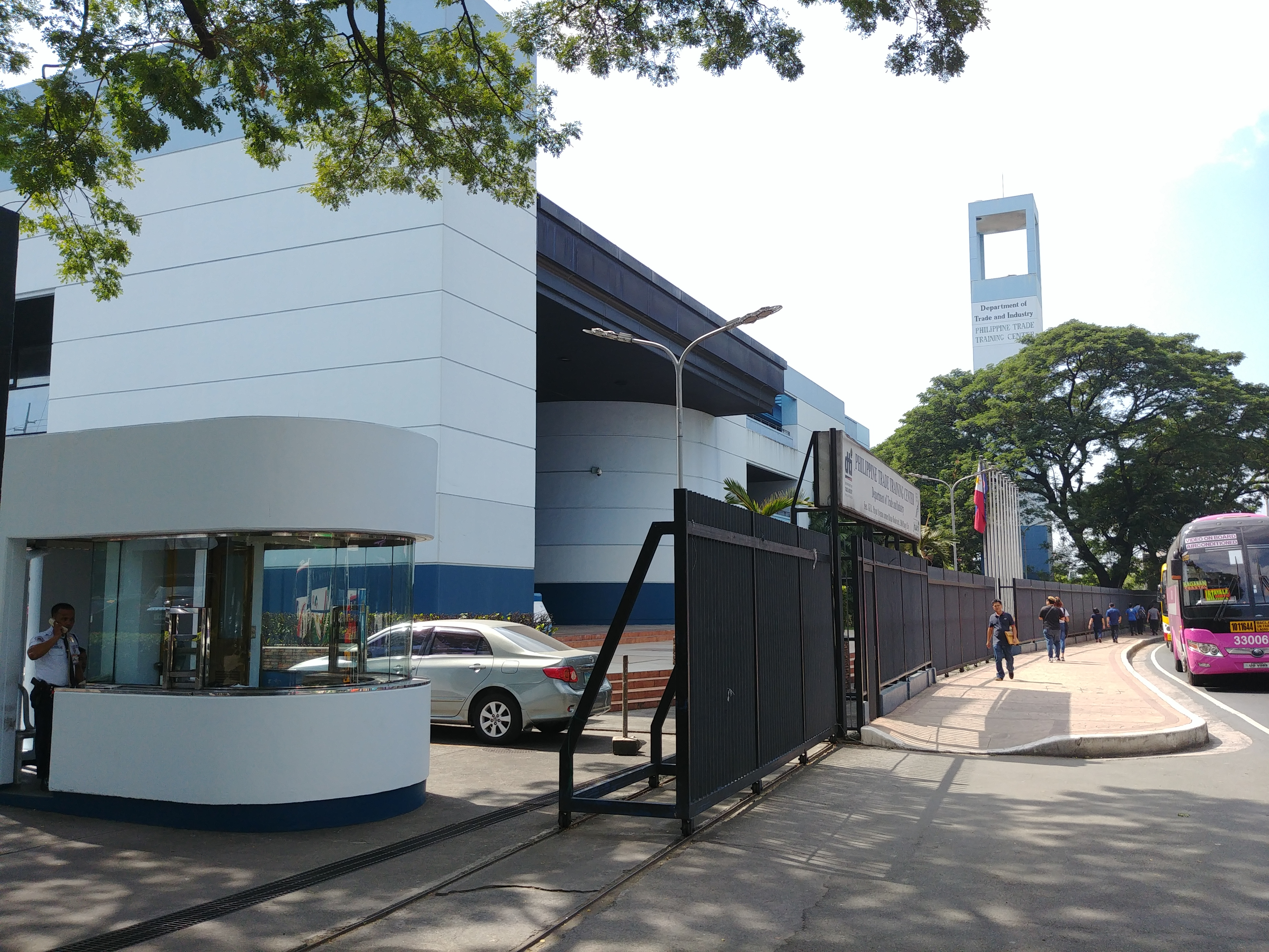 The Philippine Trade Training Center along Gil Puyat Avenue Extension in Pasay City.